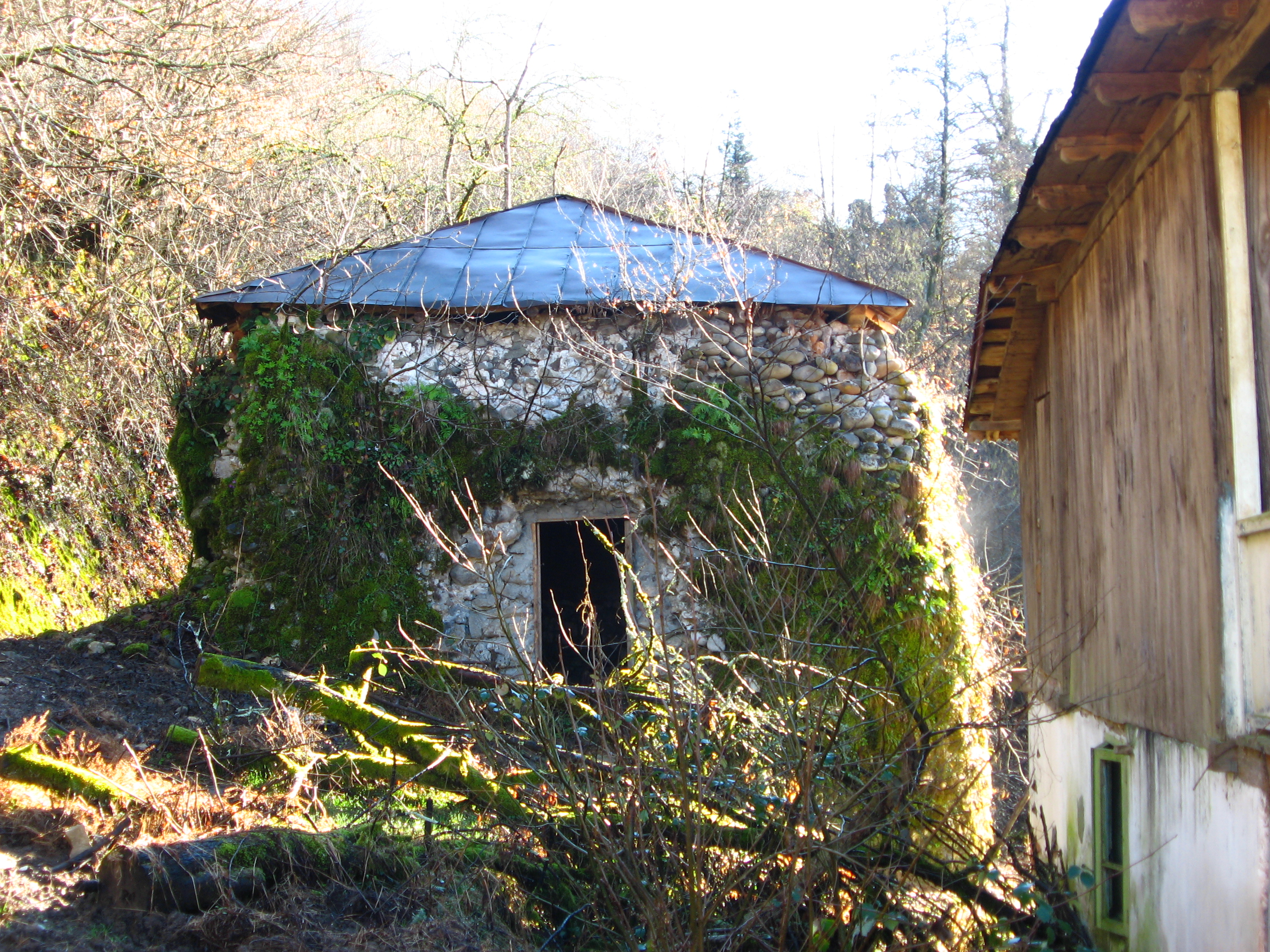 One of the towers of the Great Abkhazian Wall